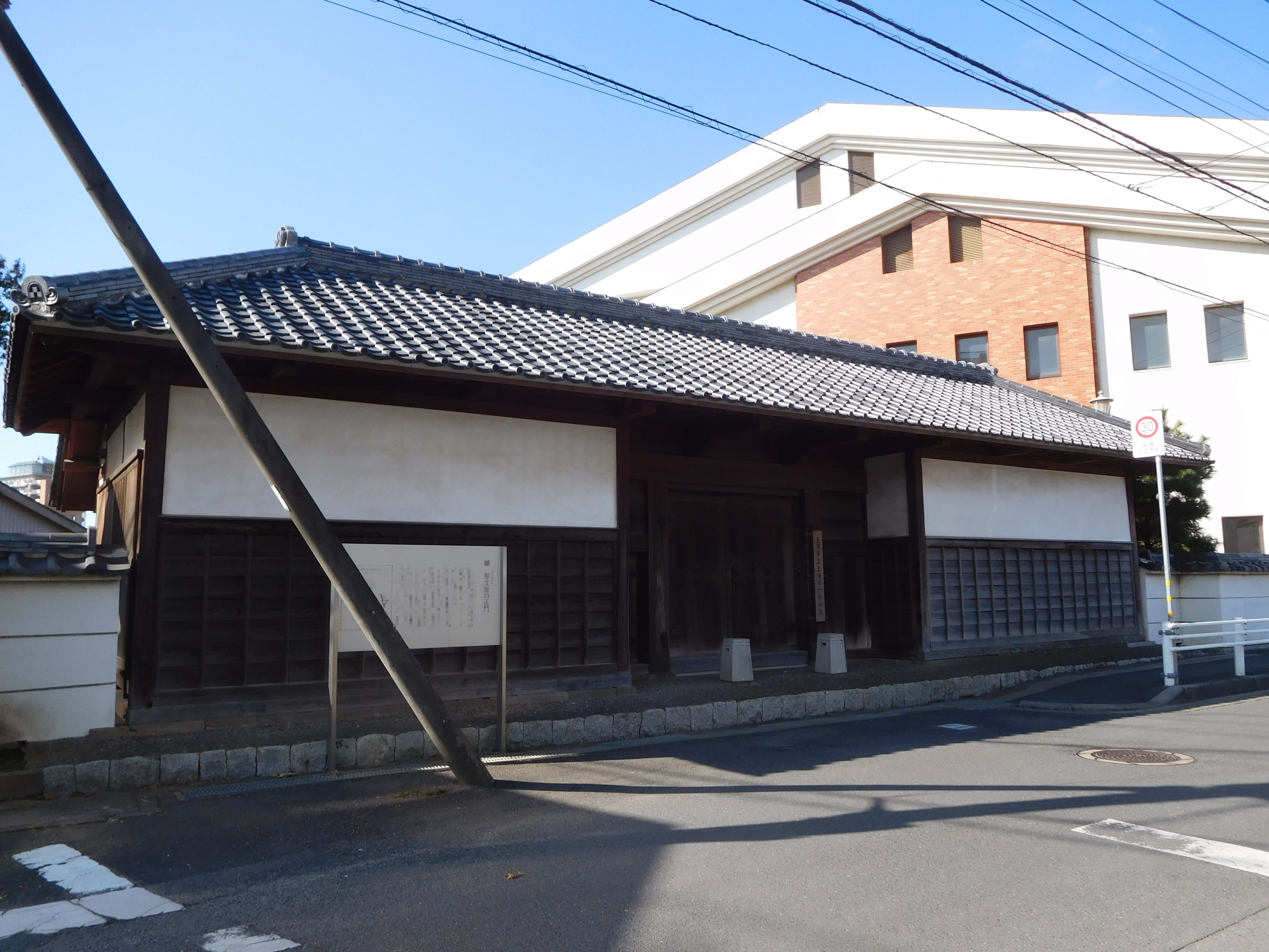 This was the main gate of Ikubunkan, a han school in Tsuchiura, Ibaraki, Japan.